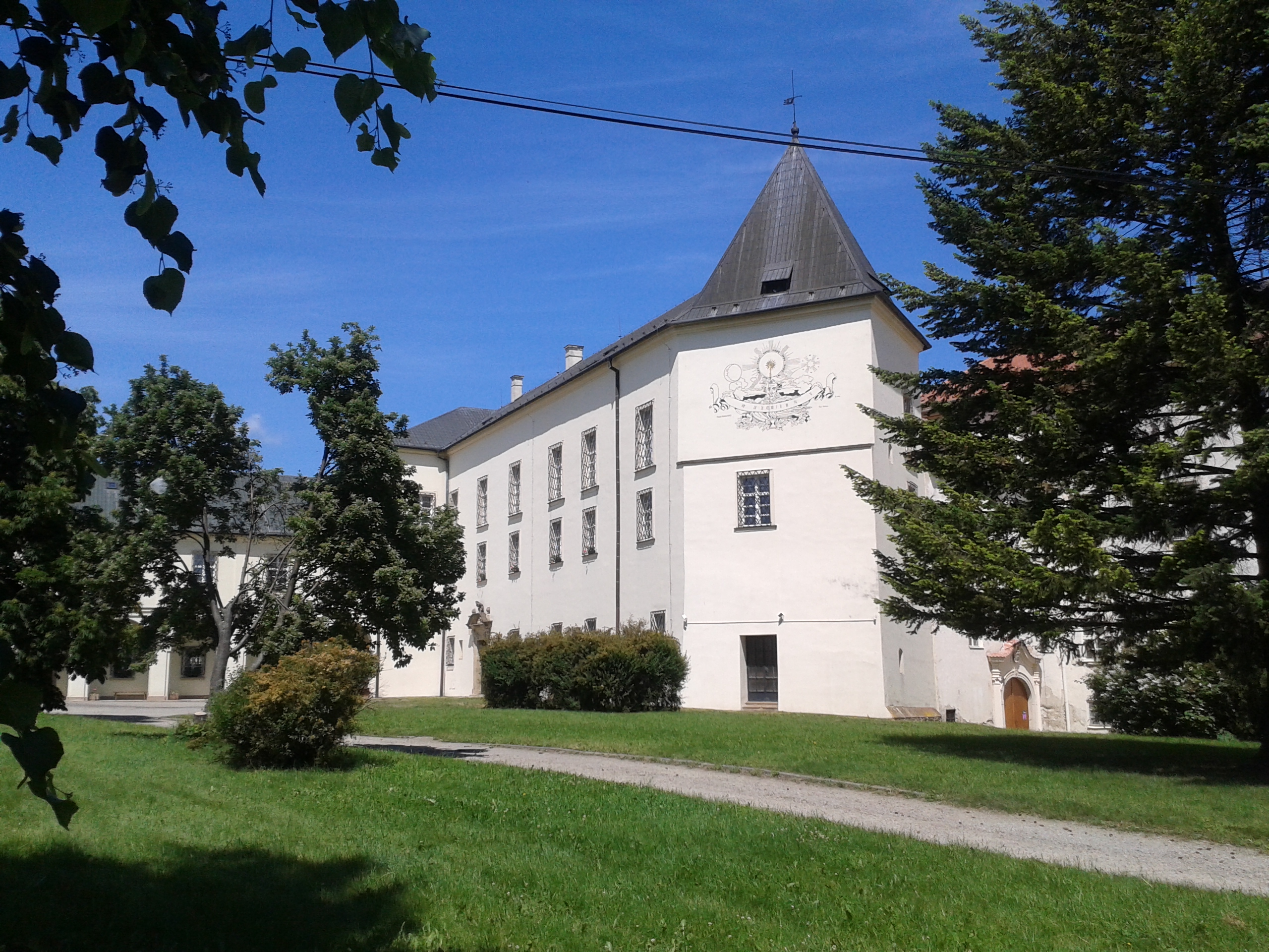 Vyškov Castle